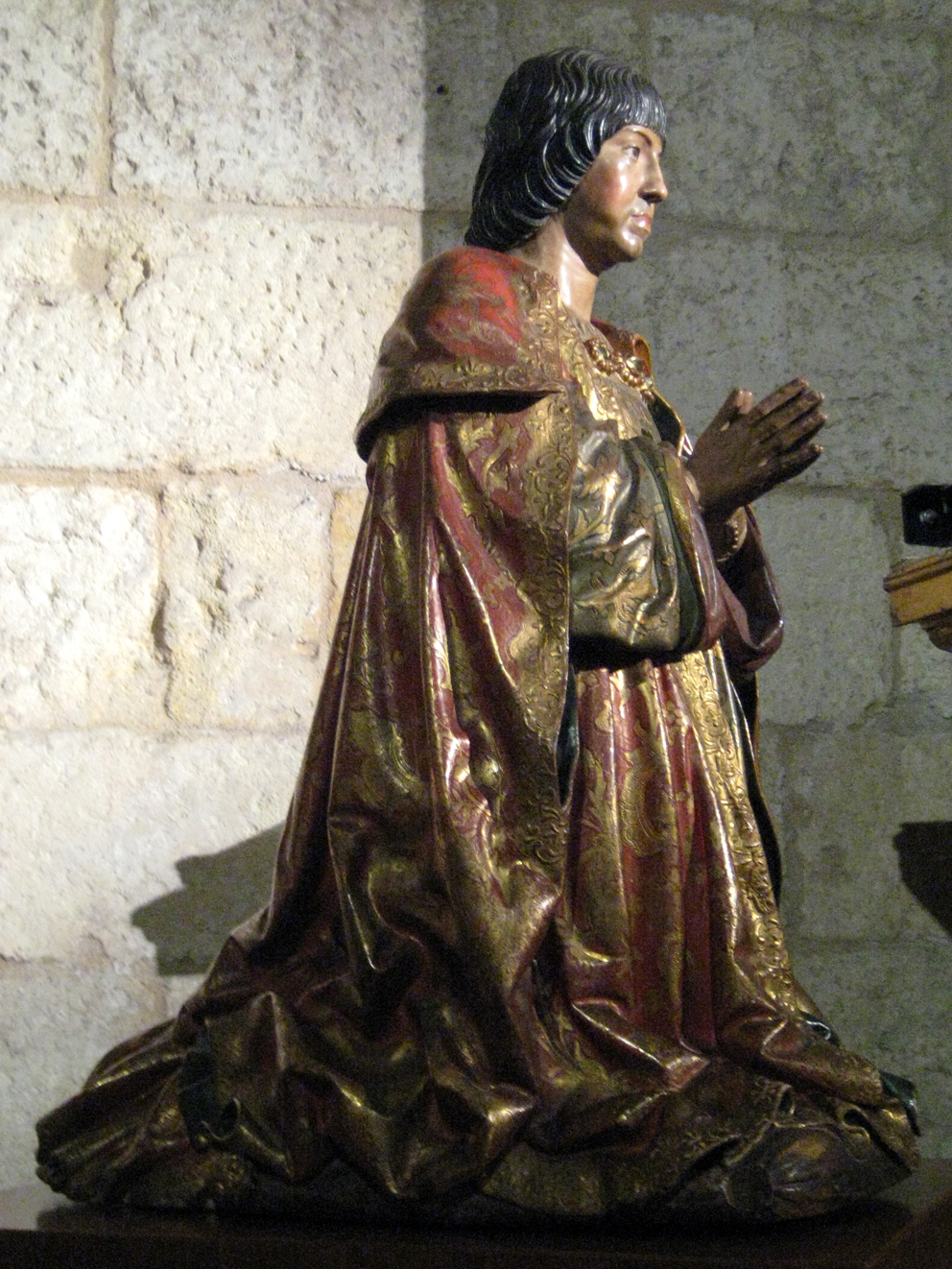 Statue of Ferdinand II of Aragon by Bigarny. In Capilla Real of Granada